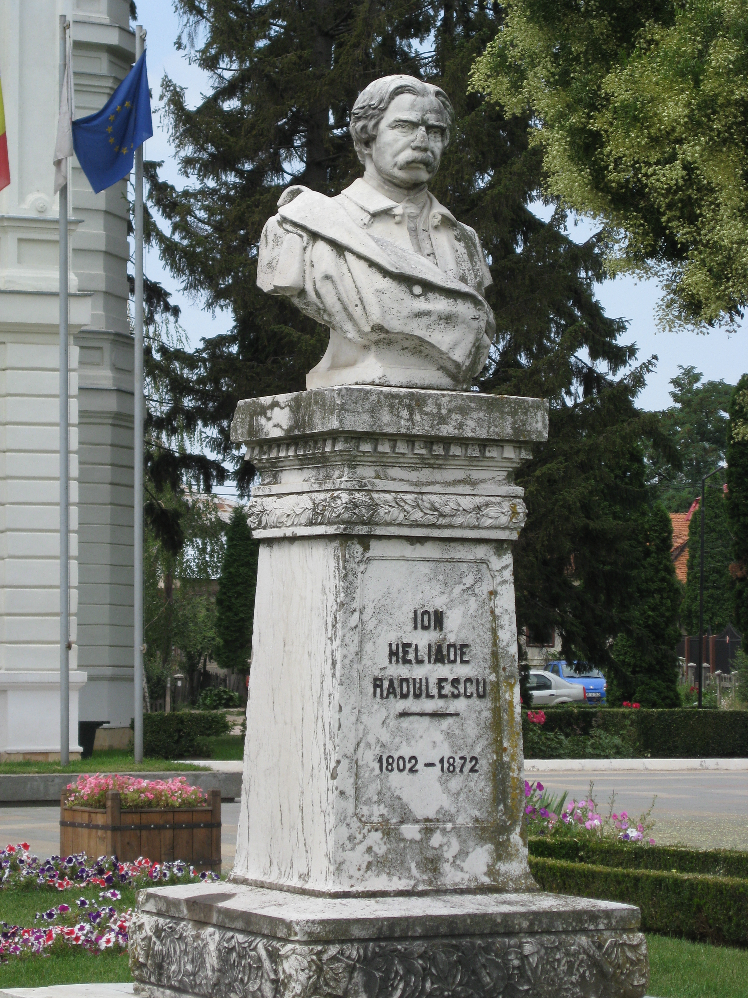 Bust of Ion Heliade Rădulescu in Târgovişte, Romania.